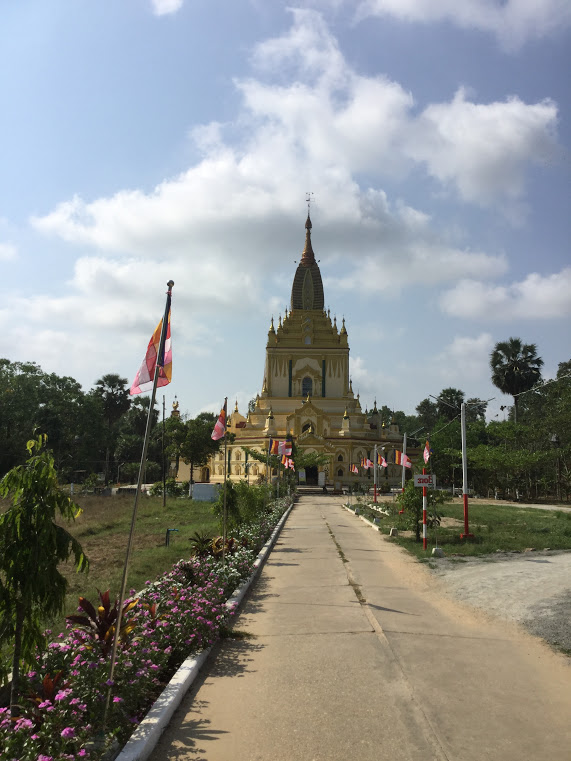 Yaekyi Oo Pagoda, Pathein, Myanmar